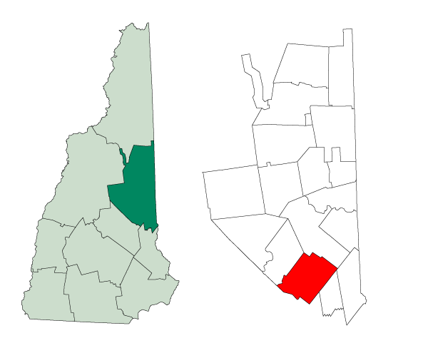 Created from Boundary/Border Outline Files of the Libre Map Project which held a BY-SA creative commons license. Data origionally from 2000 US Census boundary data.